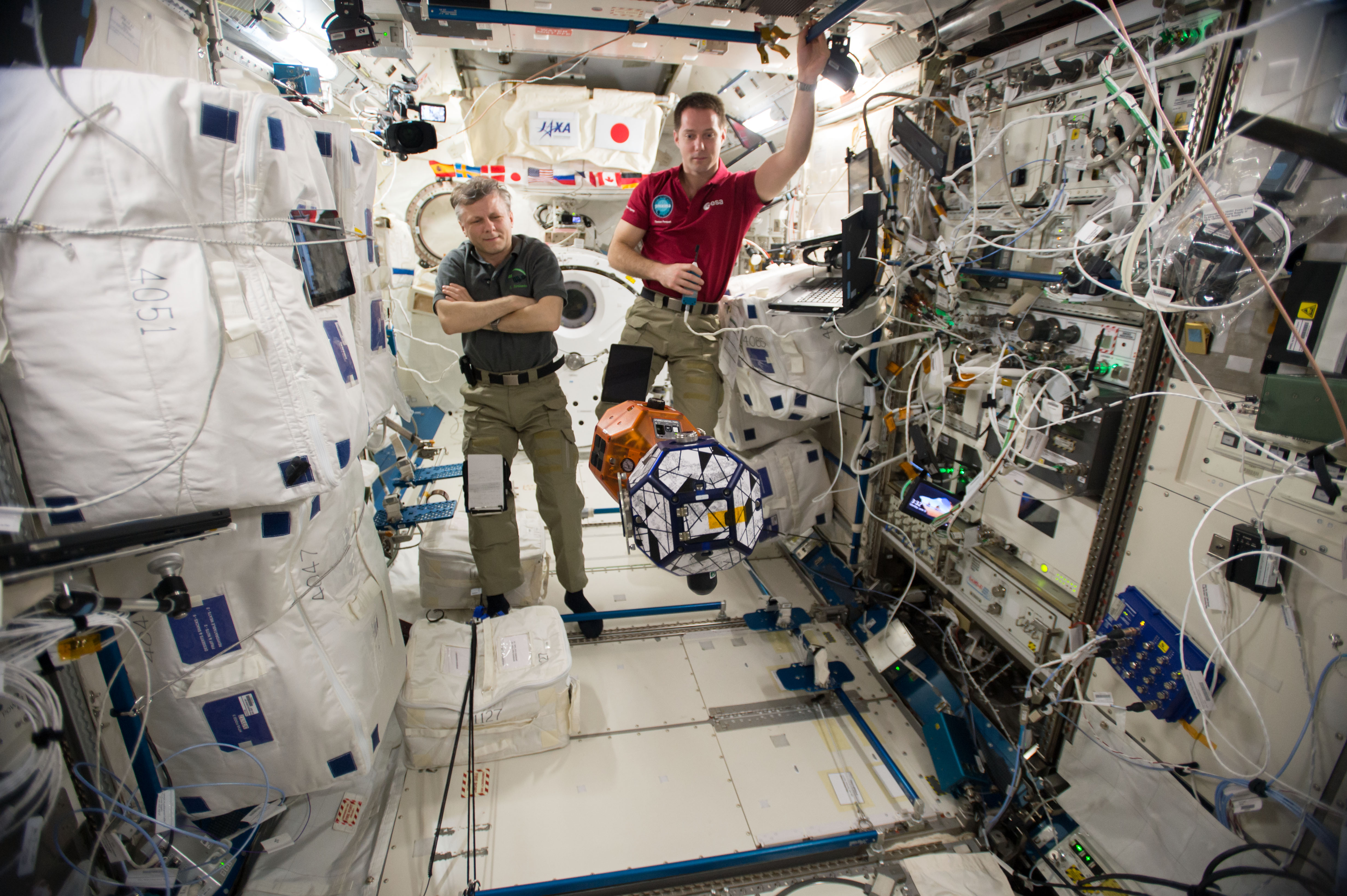 The Finals of the Zero Robotics competition aboard the JAXA module of the ISS Russian cosmonaut Andrey Borisenko and ESA astronaut Thomas Pesquet perform runs of the SPHERES-Zero Robotics investigation.